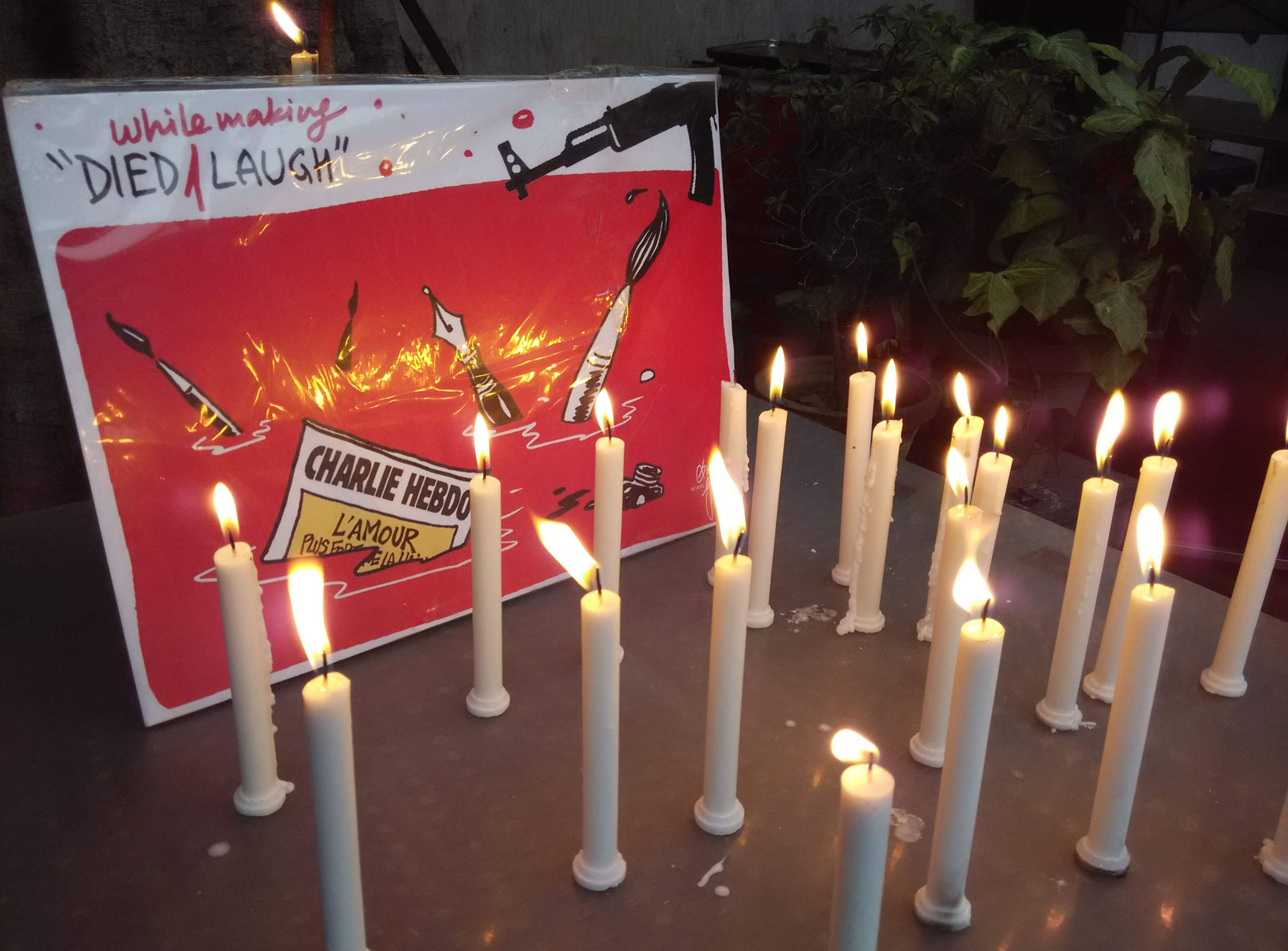 Indian journalists and cartoonists protested and expressed solidarity with victims of attack on a Paris-based media house "Charlie Hebdo" by drawing their creations and lighting candles in New Delhi, main visual by Cartoonist Shekhar Gurera